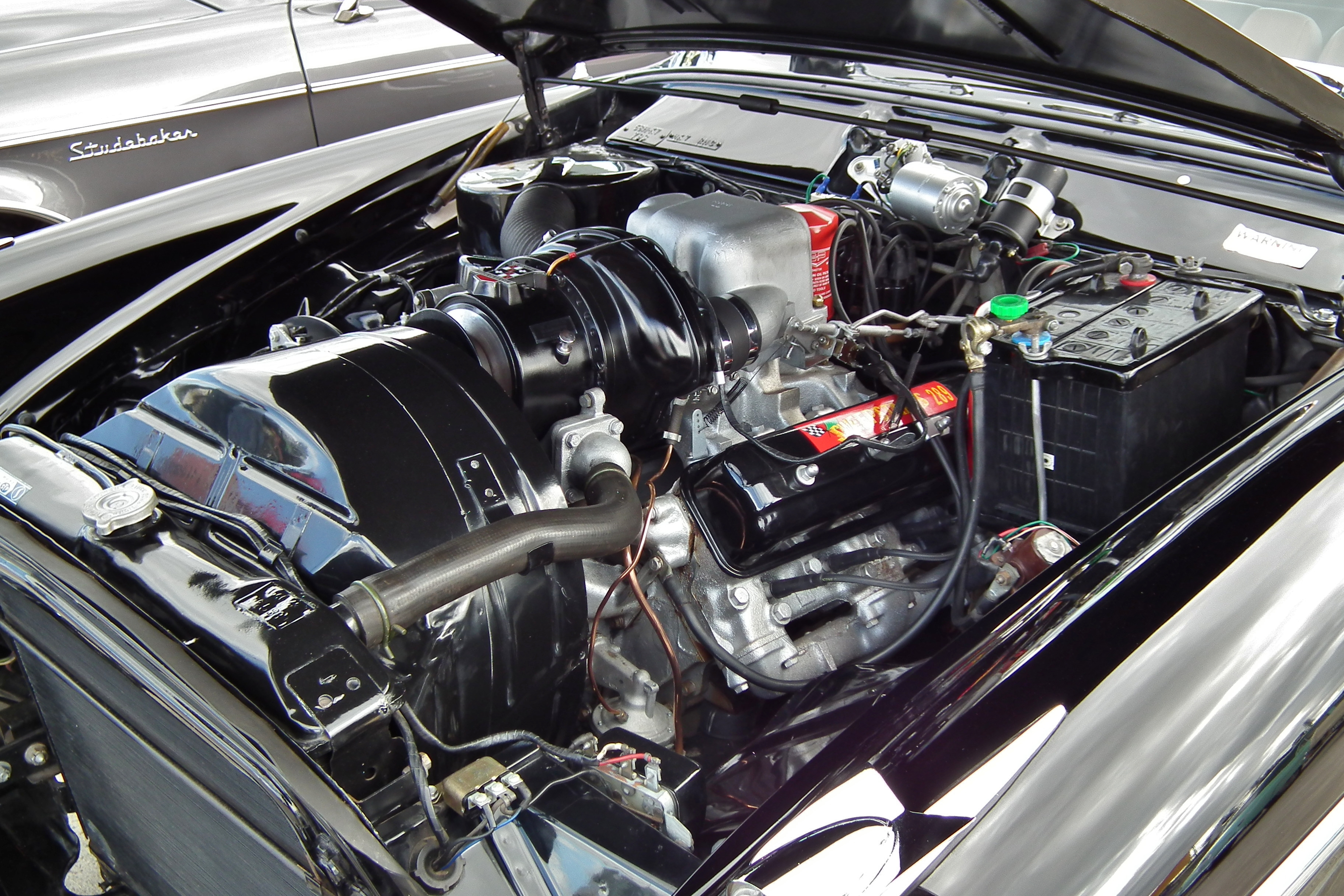 1958 Studebaker Golden Hawk coupe engine. Taken at Shannon's Eastern Creek Classic 2011, held at Eastern Creek Raceway Sydney.